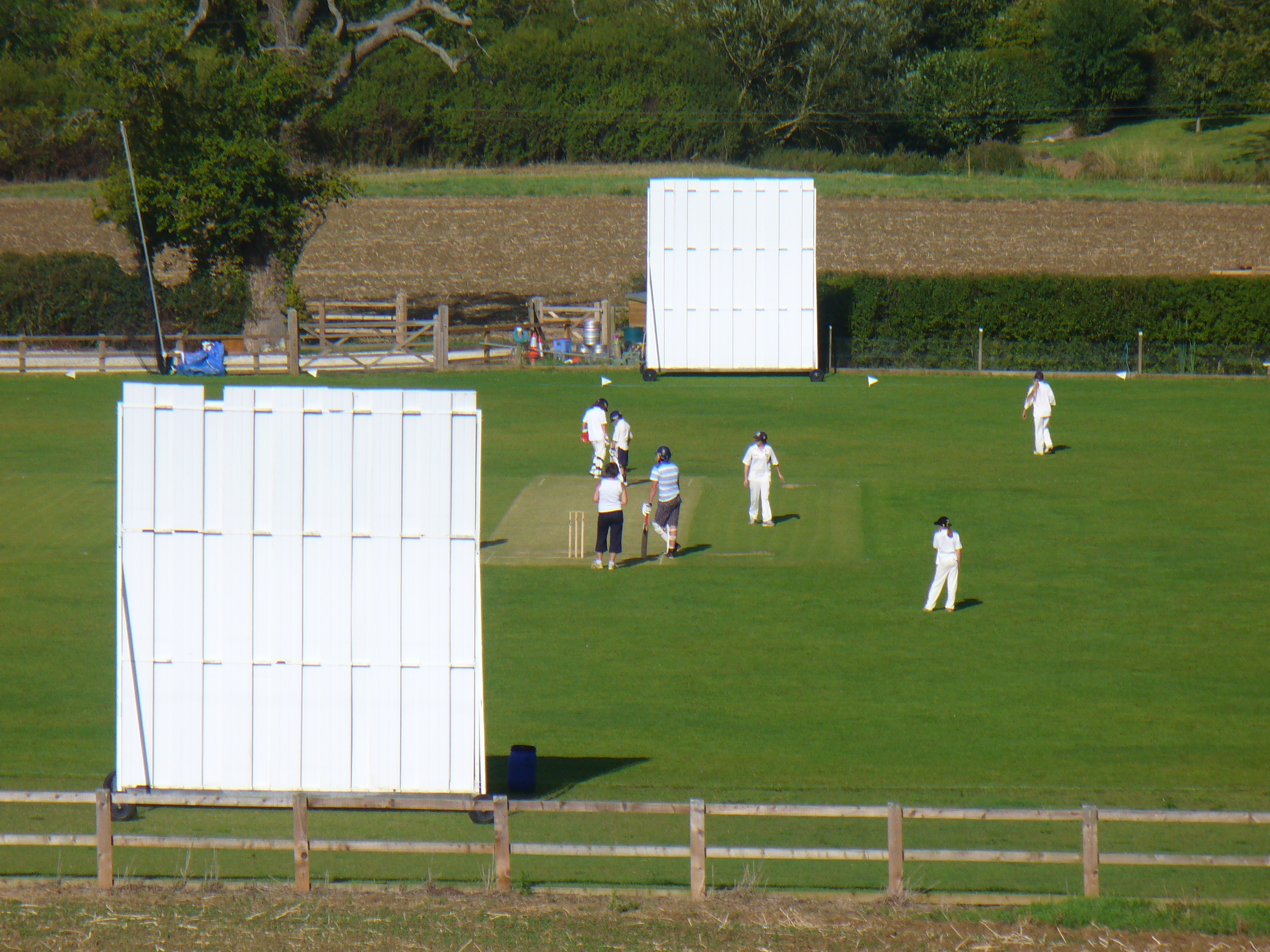 Charlbury Cricket Ground